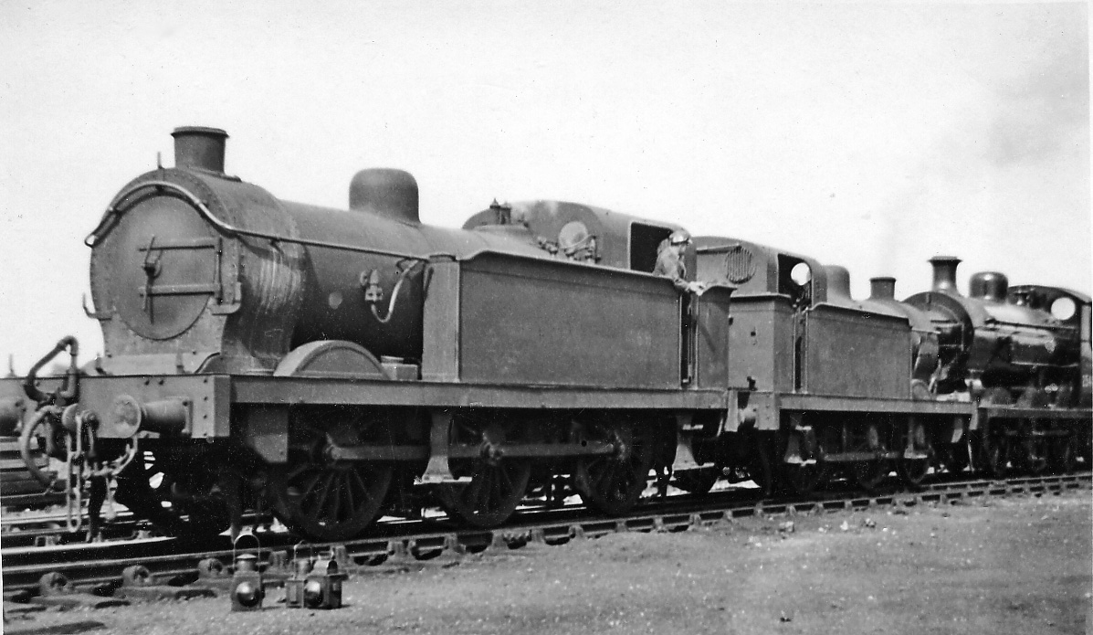 Two cut-down ex-SER 0-6-0Ts at Ashford Locomotive Depot Ex-SER Stirling class R1 Nos. 1069 (built 6/1898) and 1147 (built 11/1890) had been cut down to operate on the restrictive Canterbury & Whitstable line, but were engaged here in shunting ex-Works engines; both were withdrawn in 8/58.